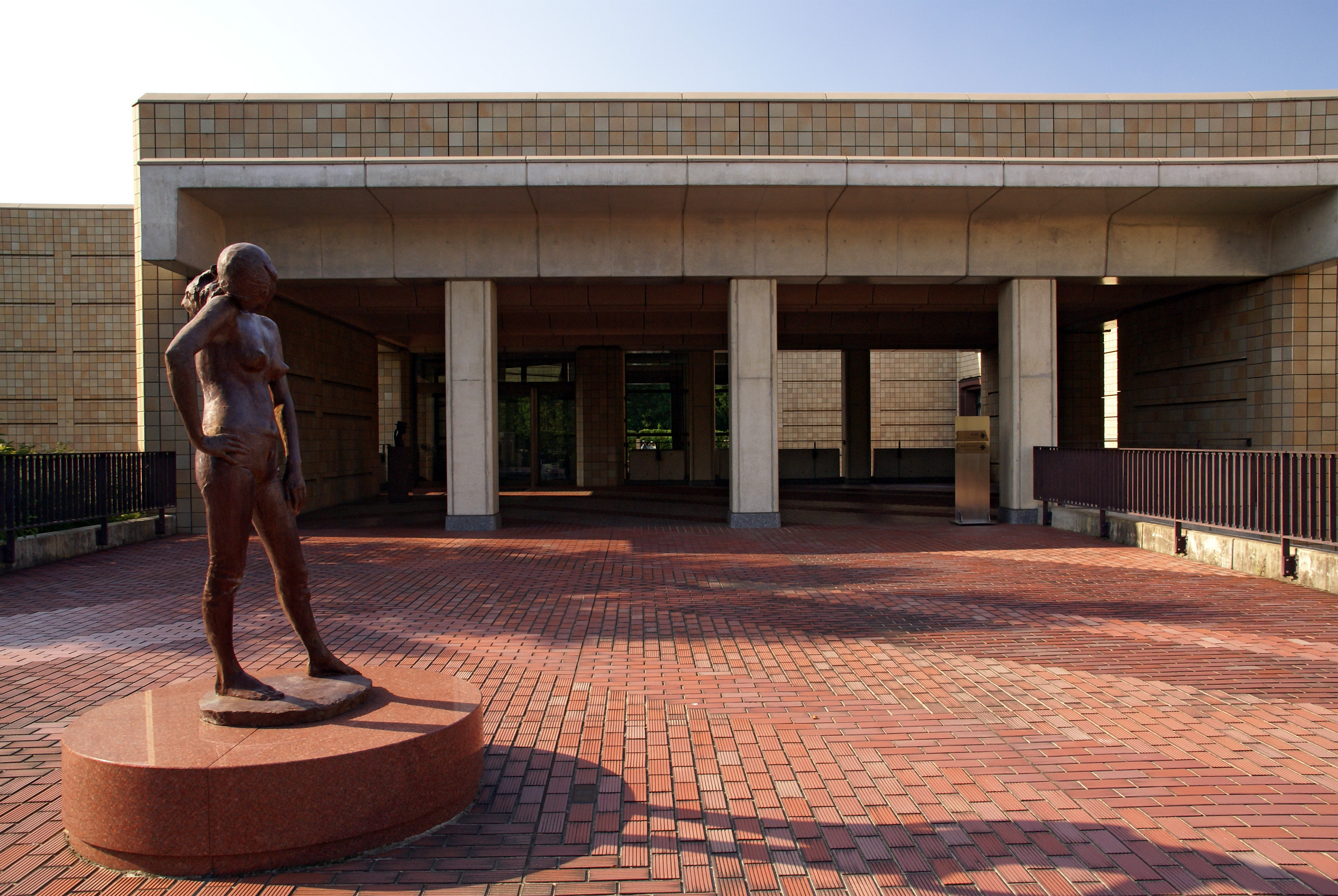 The Miyagi Museum of Art in Sendai, Miyagi prefecture, Japan